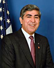 Albert Bustamante, US Representative from Texas